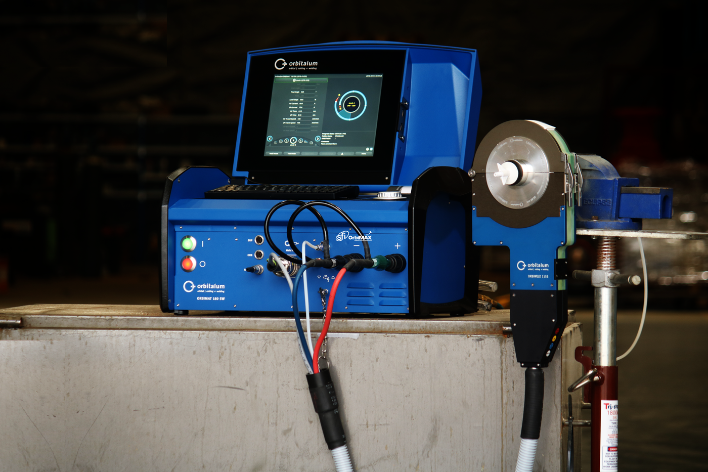 Orbital welding heads Orbitalum with an orbital welder.